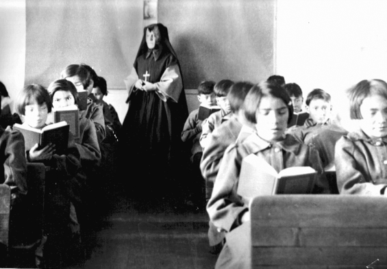 Photograph of students from Fort Albany Residential School reading in class overseen by a nun c 1945. From the Edmund Metatawabin collection at the University of Algoma.